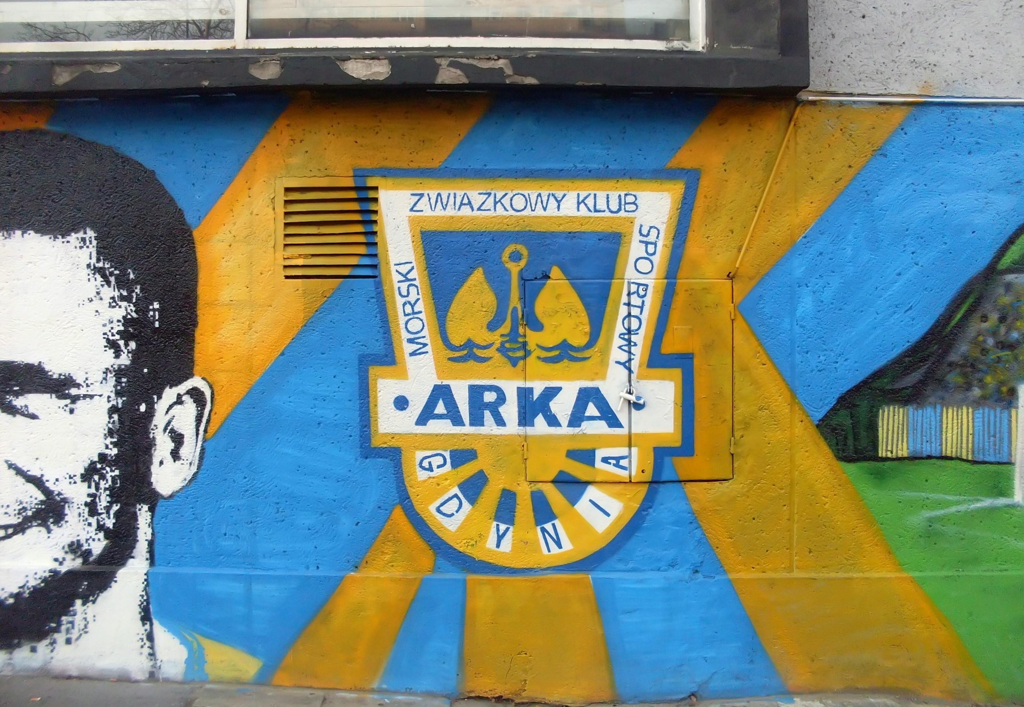 Logo of Arka Gdynia at graffiti at ulica Józefa Bema in Gdynia.